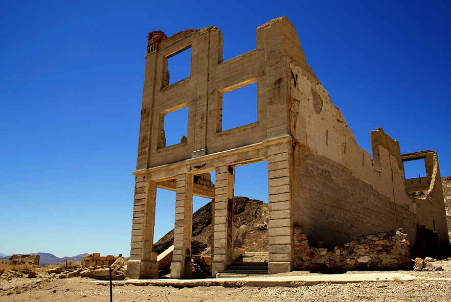 Ruins of Cook Bank, Rhyolite, Nevada